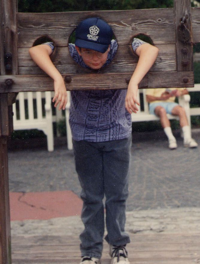 A boy in stocks posing for a photograph.